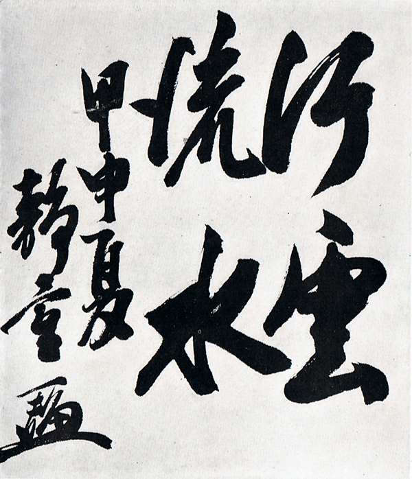 An autograph of Gen. Shizuichi Tanaka. 『行雲流水』.